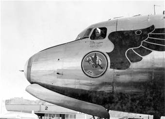 C-54 of the 320th Troop Carrier Squadron showing squadron emblem. Pilot is Col. Tibbets, commander of the 509th Composite Group. Taken at Wendover AAF, Utah as group was deploying to Tinian.